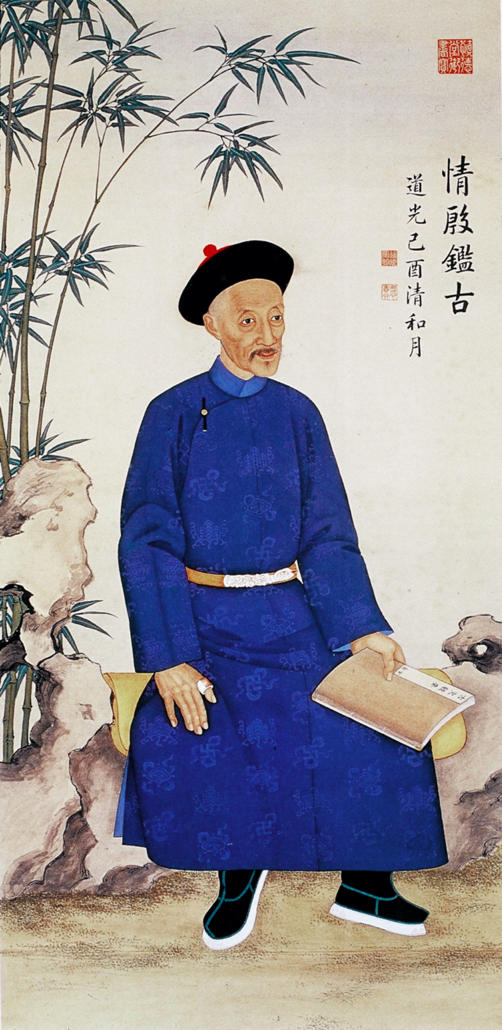 A portrait of Emperor Daoguang. 道光帝肖像